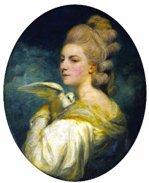 Portrait of of the courtesan Mary Nesbitt